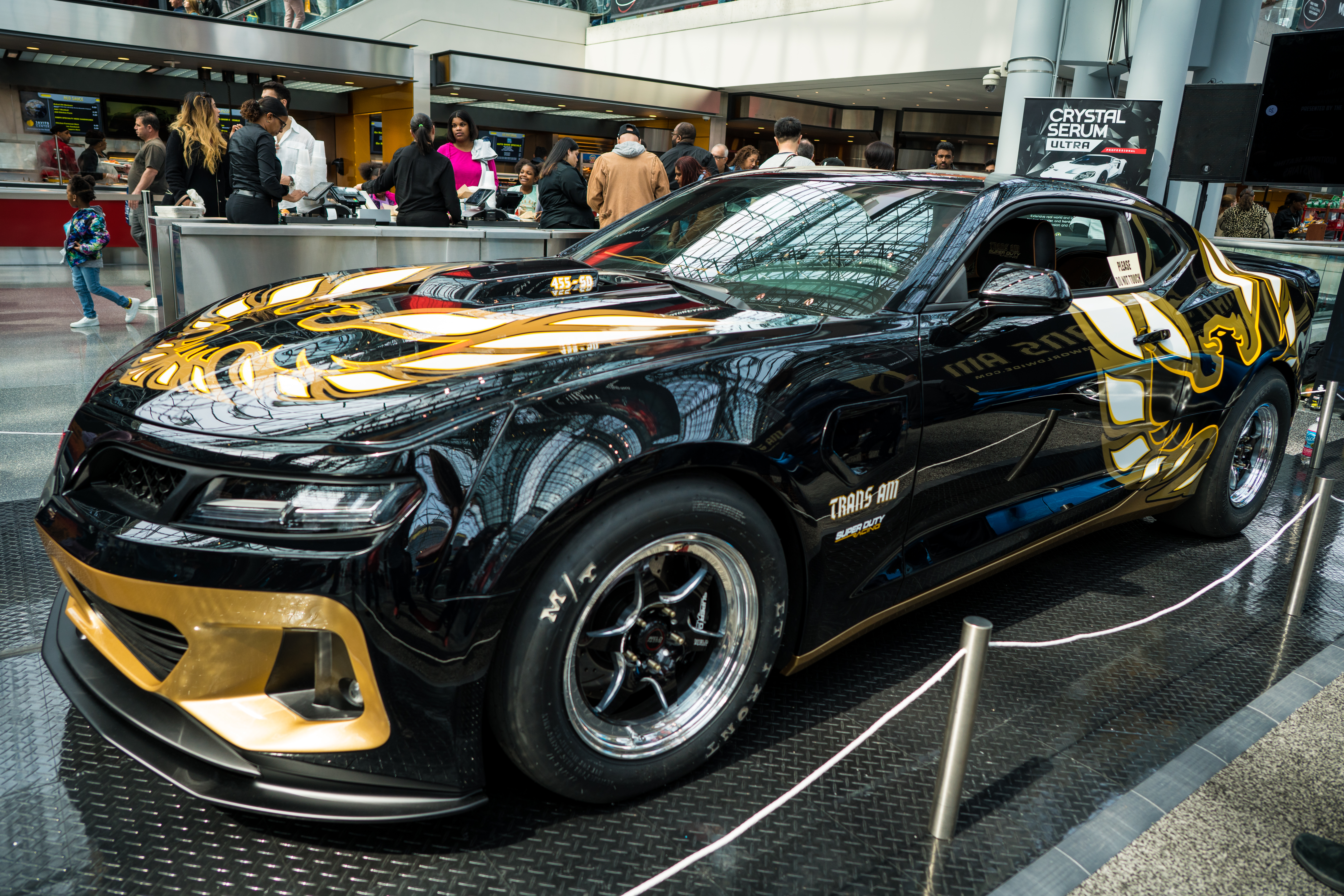 Trans Am Super Duty at the New York International Auto Show NYIAS